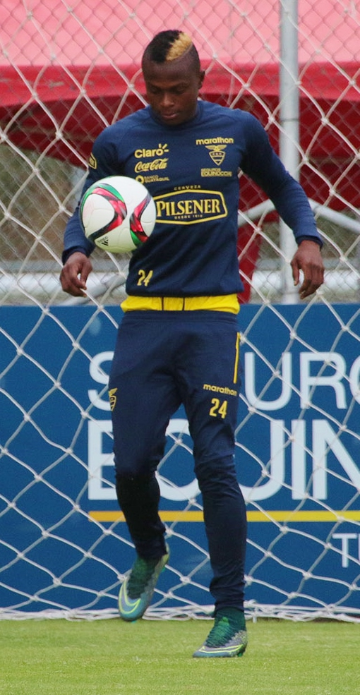 Juan Cazares